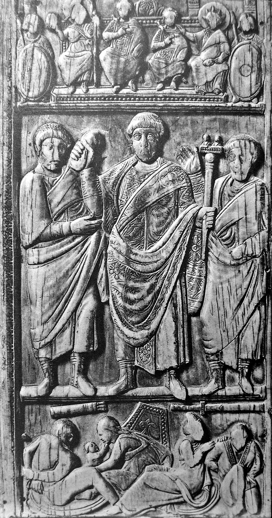 Consular diptych of Constantius III. (Halberstadt Cathedral)